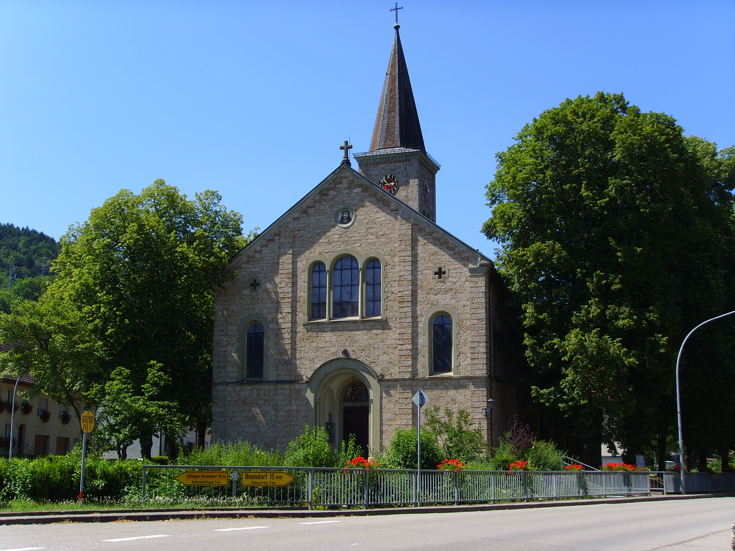 Church of Eggingen, Germany Quelle: selbst fotografiert Fotograf/Zeichner